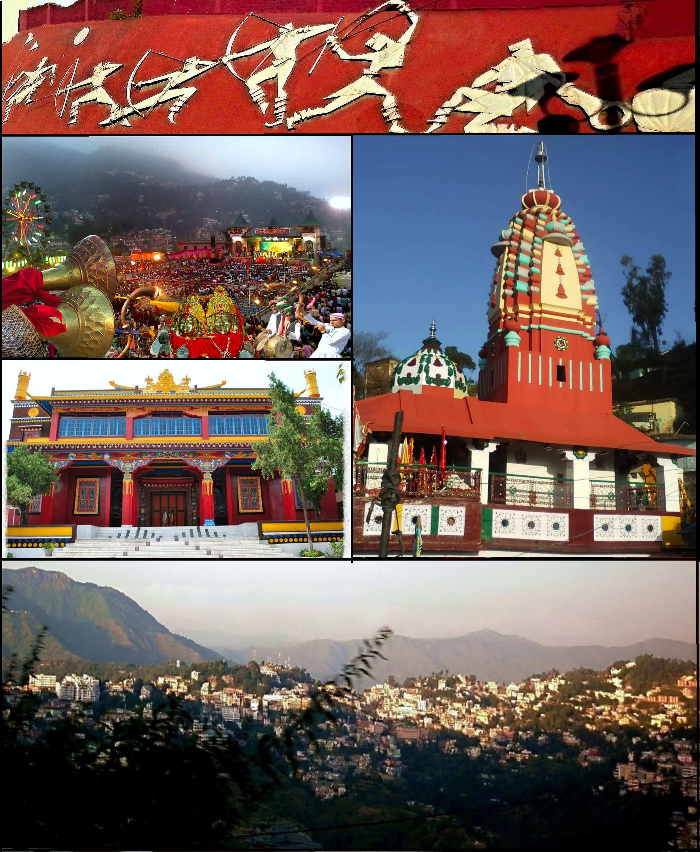 From top going left to right : thodo dance of solan , shoolini Utsav, Shoolini devi temple solan, Yung Drung monastery Dholanji Solan, panoramic view of solan city.